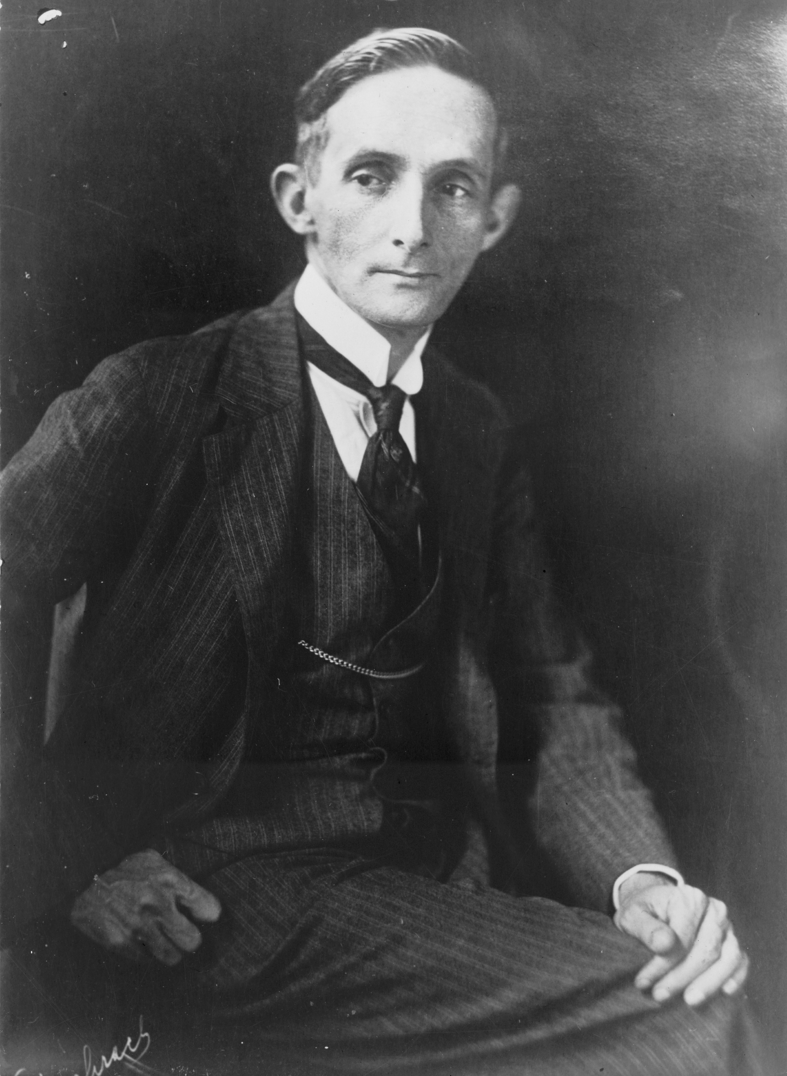 Félix Córdova Dávila, three-quarter length portrait, seated, facing slightly right